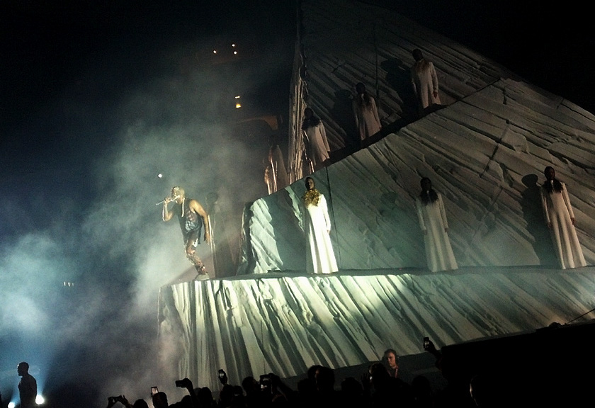 A masked Kanye West performing at Staples Center on October 26, 2013 in Los Angeles on The Yeezus Tour.